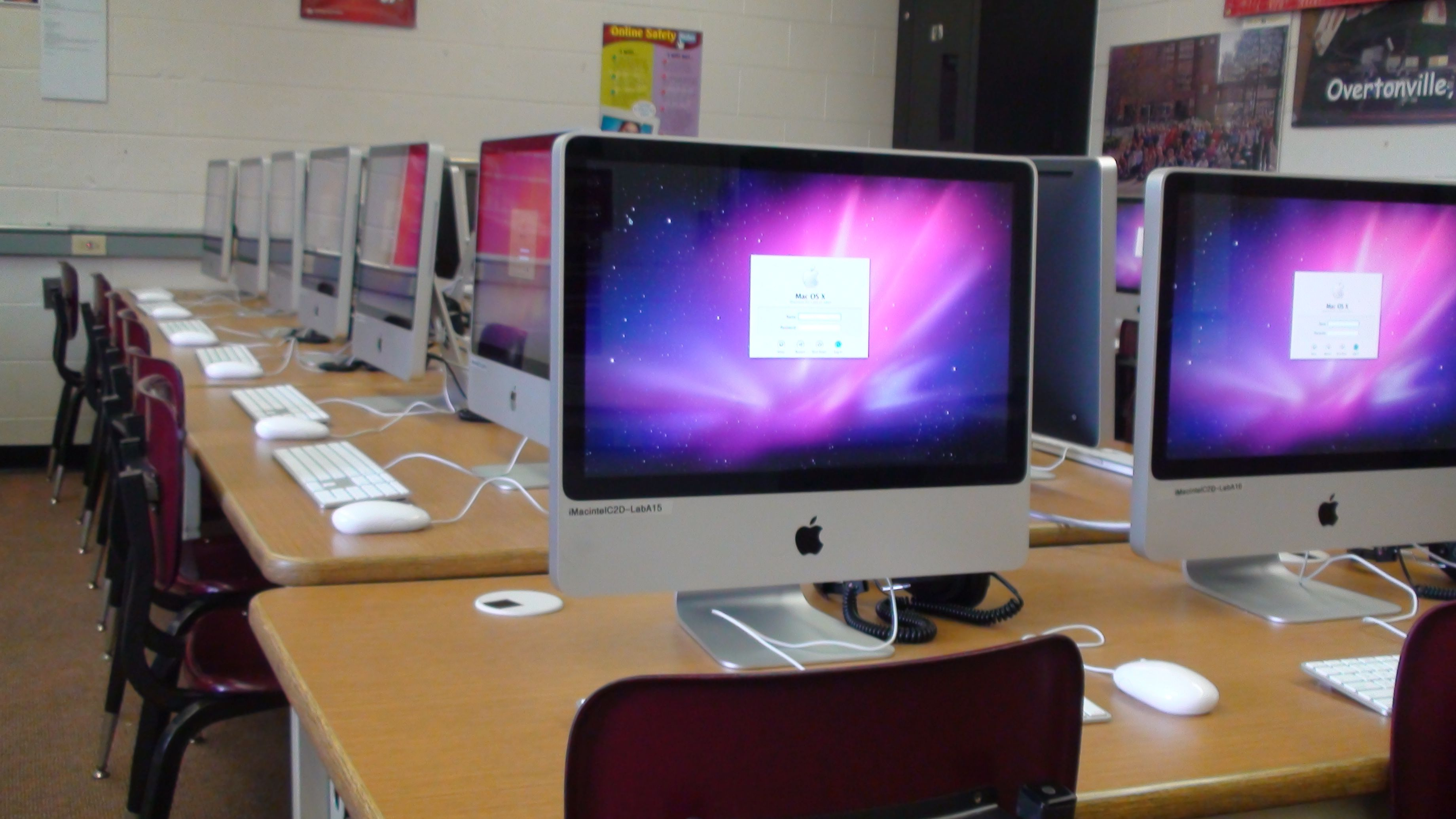 Overton's Computer Lab